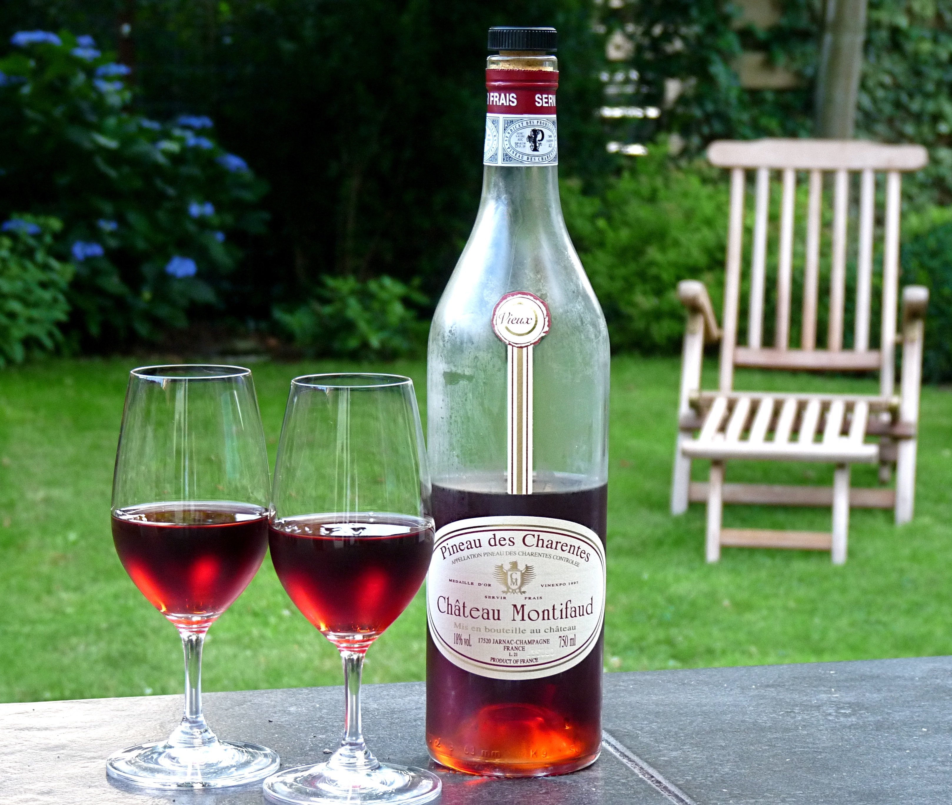 Pineau des Charentes Vieux